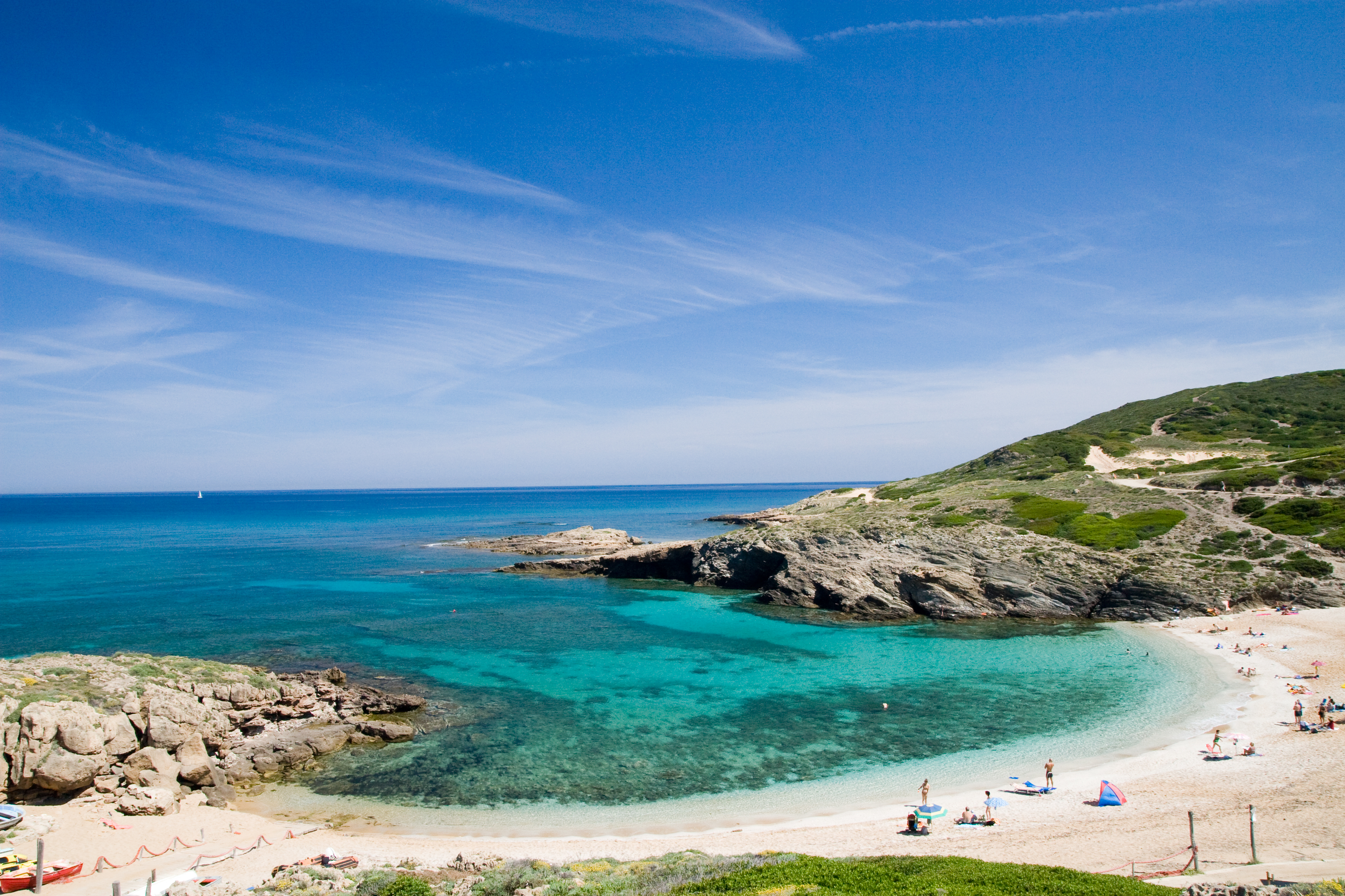 becah of porto palmas (commune of sassari - Sardinia/Sardegna)